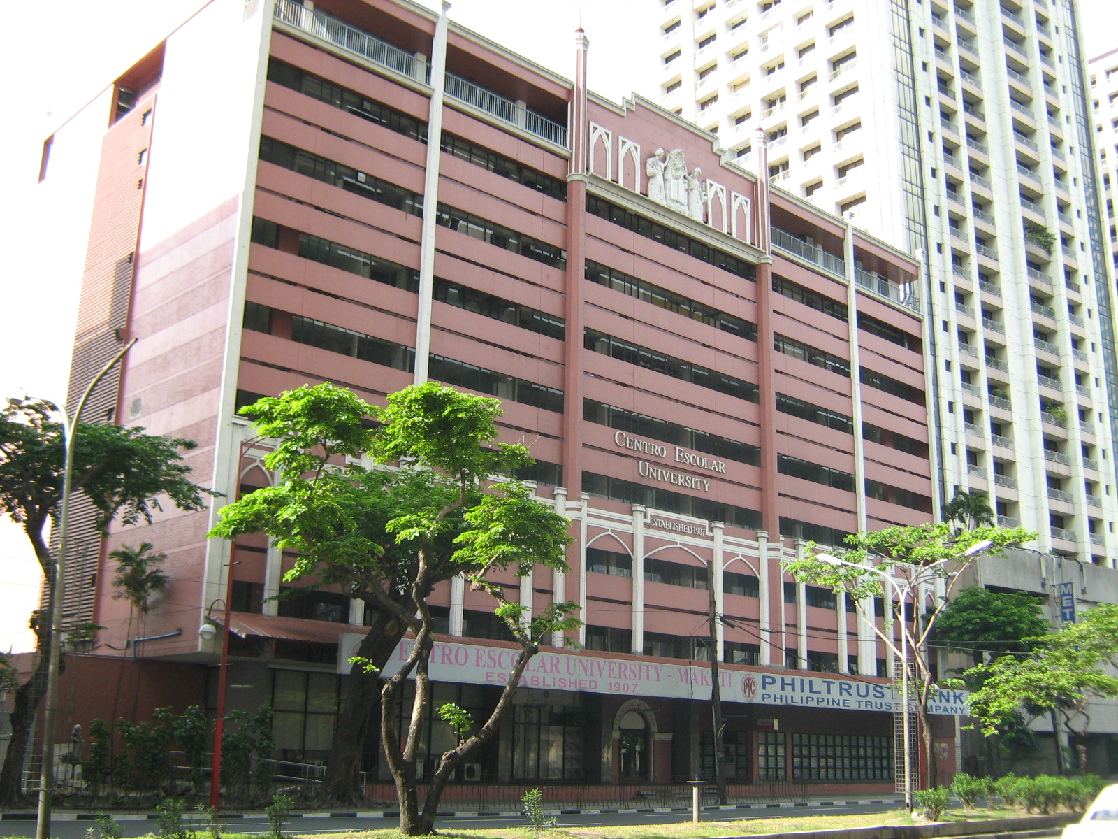 Centro Escolar University's campus in Makati City